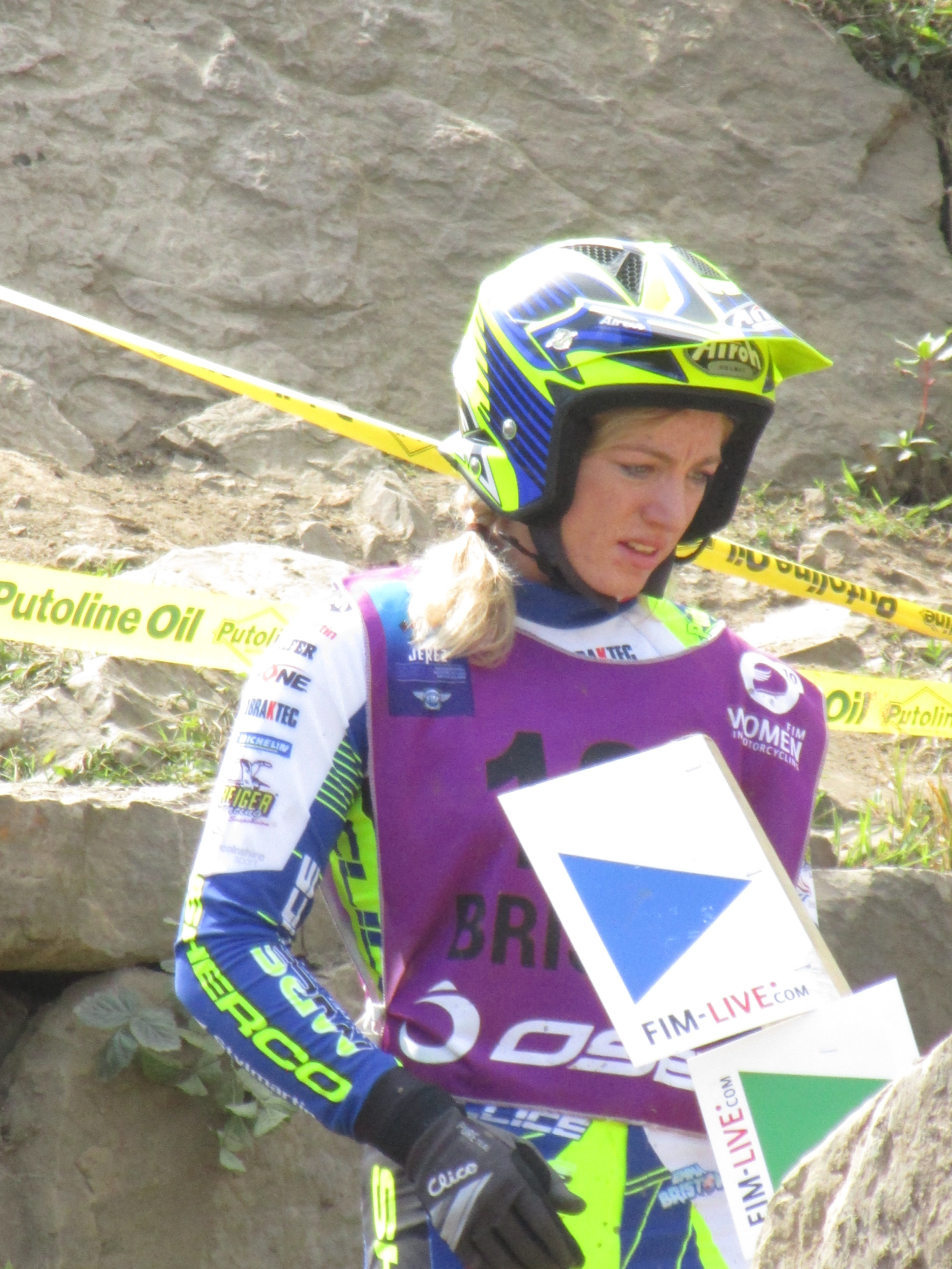 Emma Bristow - World Trials British Round 2016